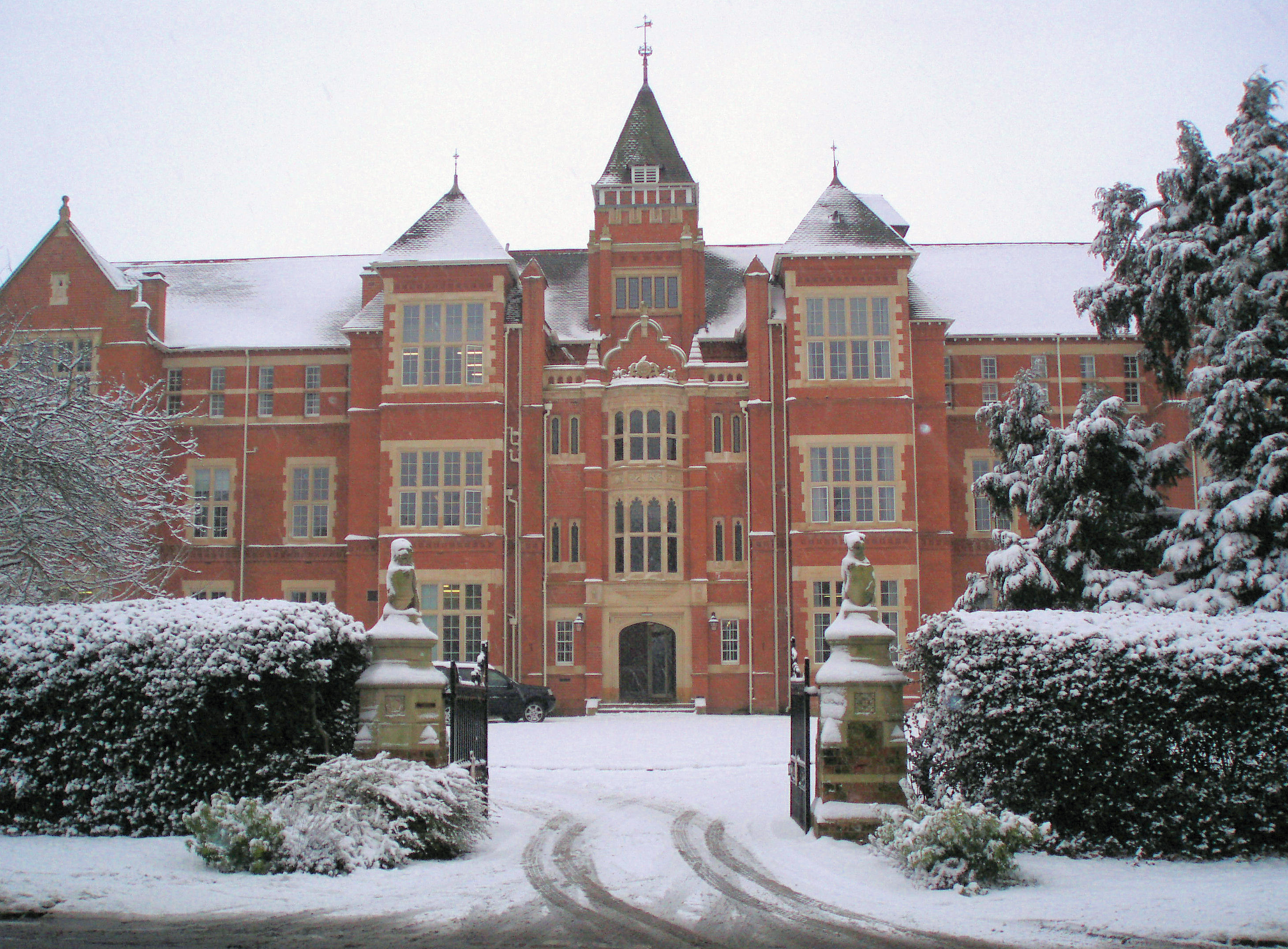 The 1879 frontage of Warwick School, photographed in February 2007.